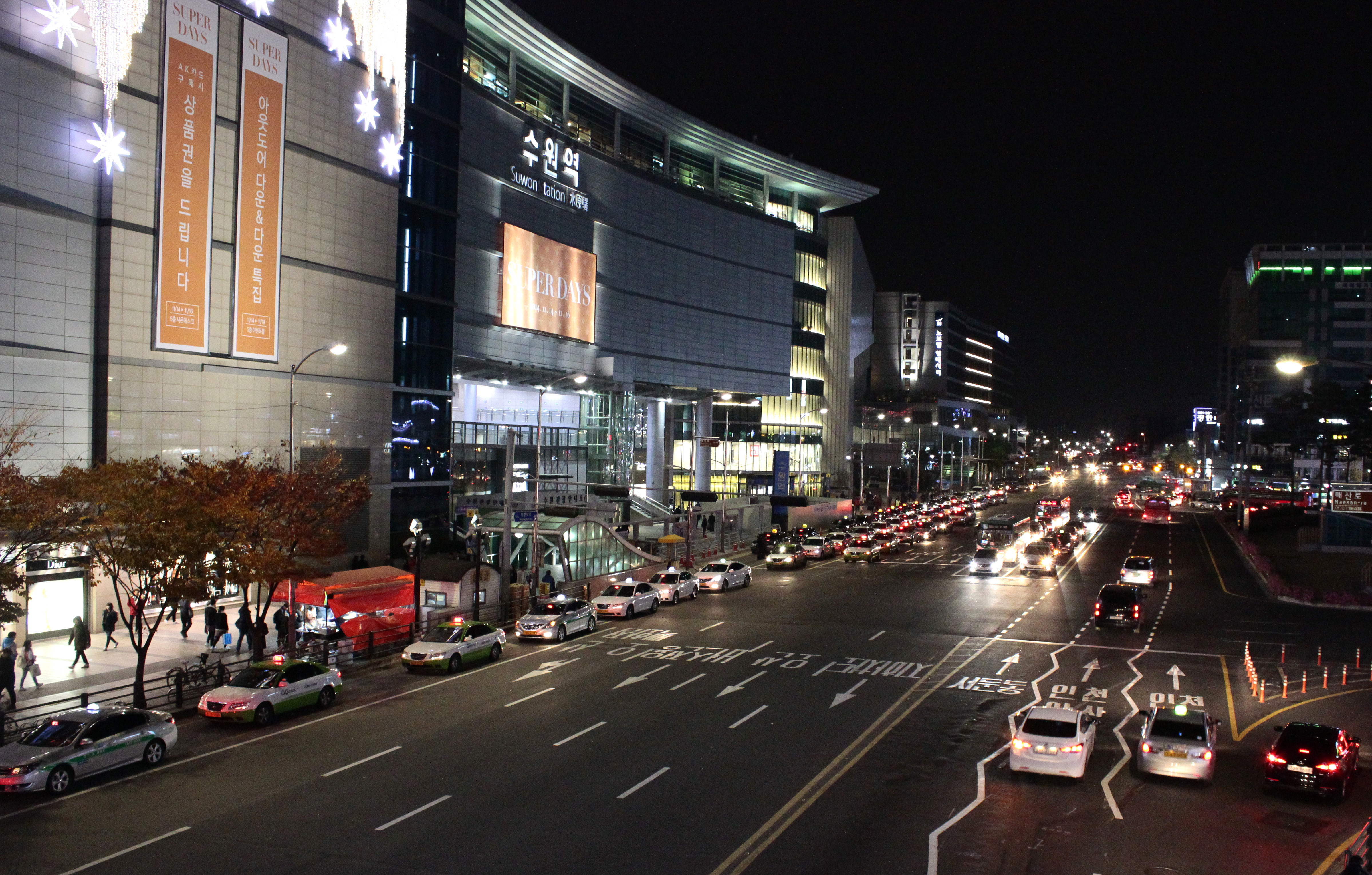 16 Nov 2014 @Suwon Station Pedestrian Overpass